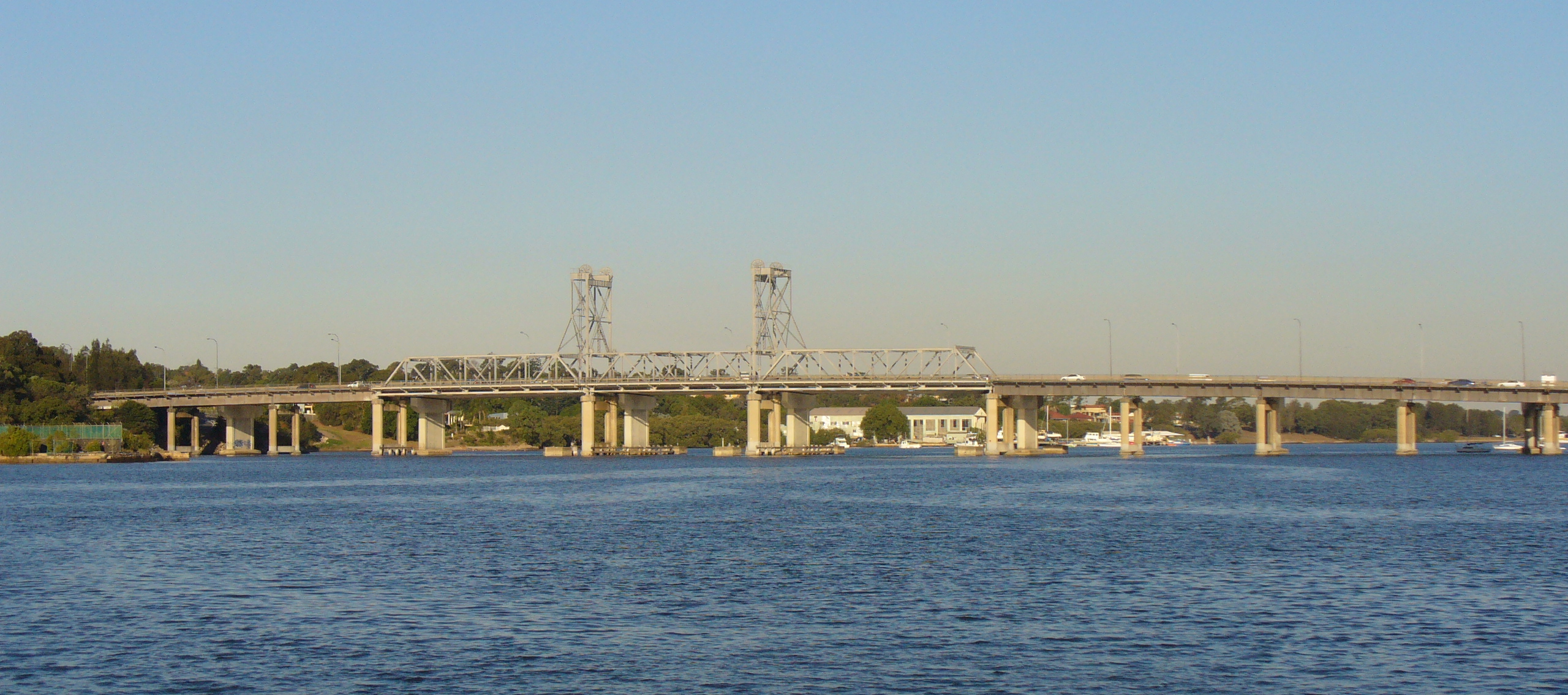 Ryde Bridge, taken from Meadowbank, New South Wales